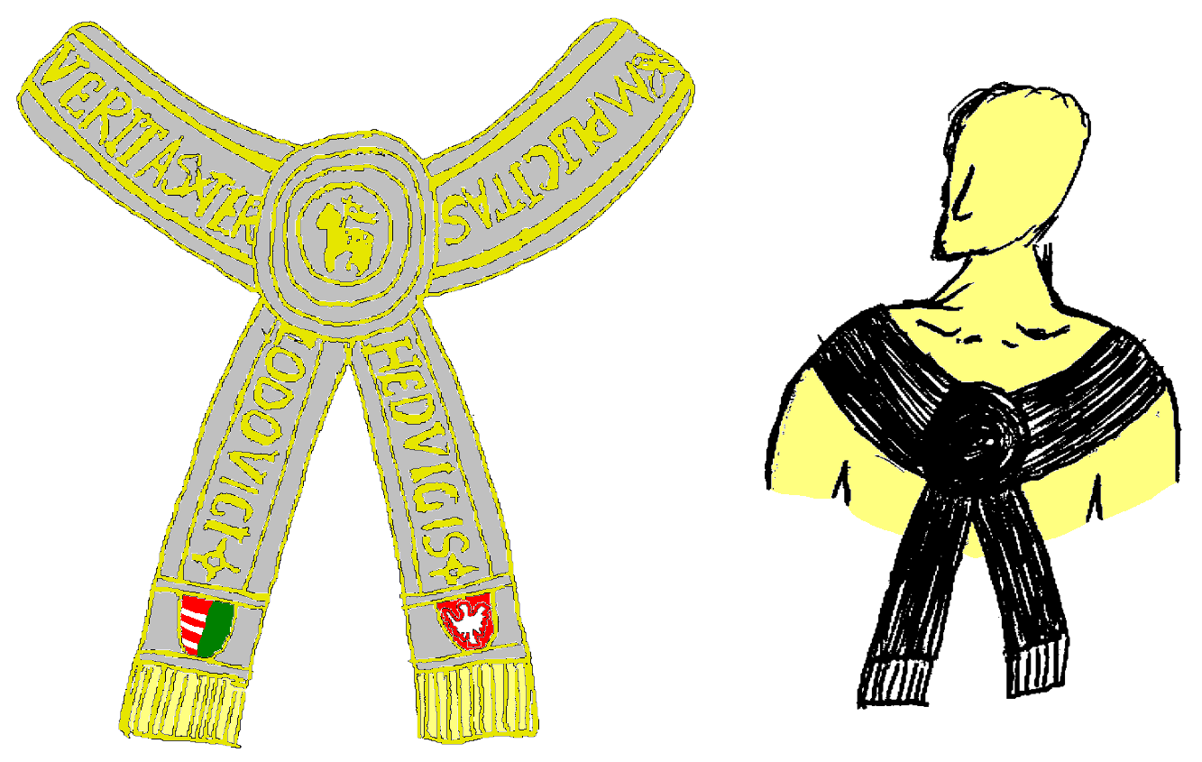 Rationale Saint Queen Jadwiga of Poland